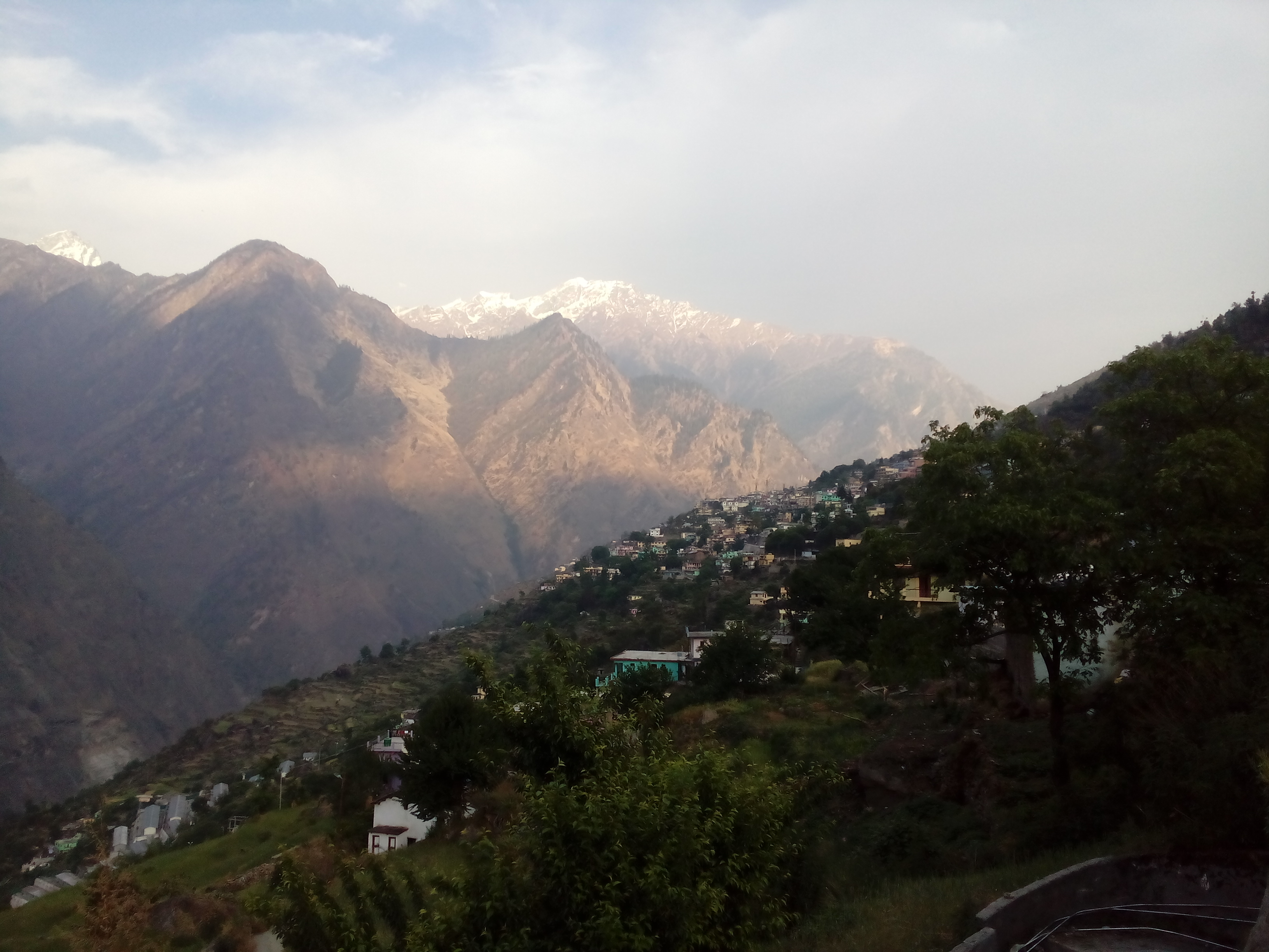 Joshimath, view from narsingh temple